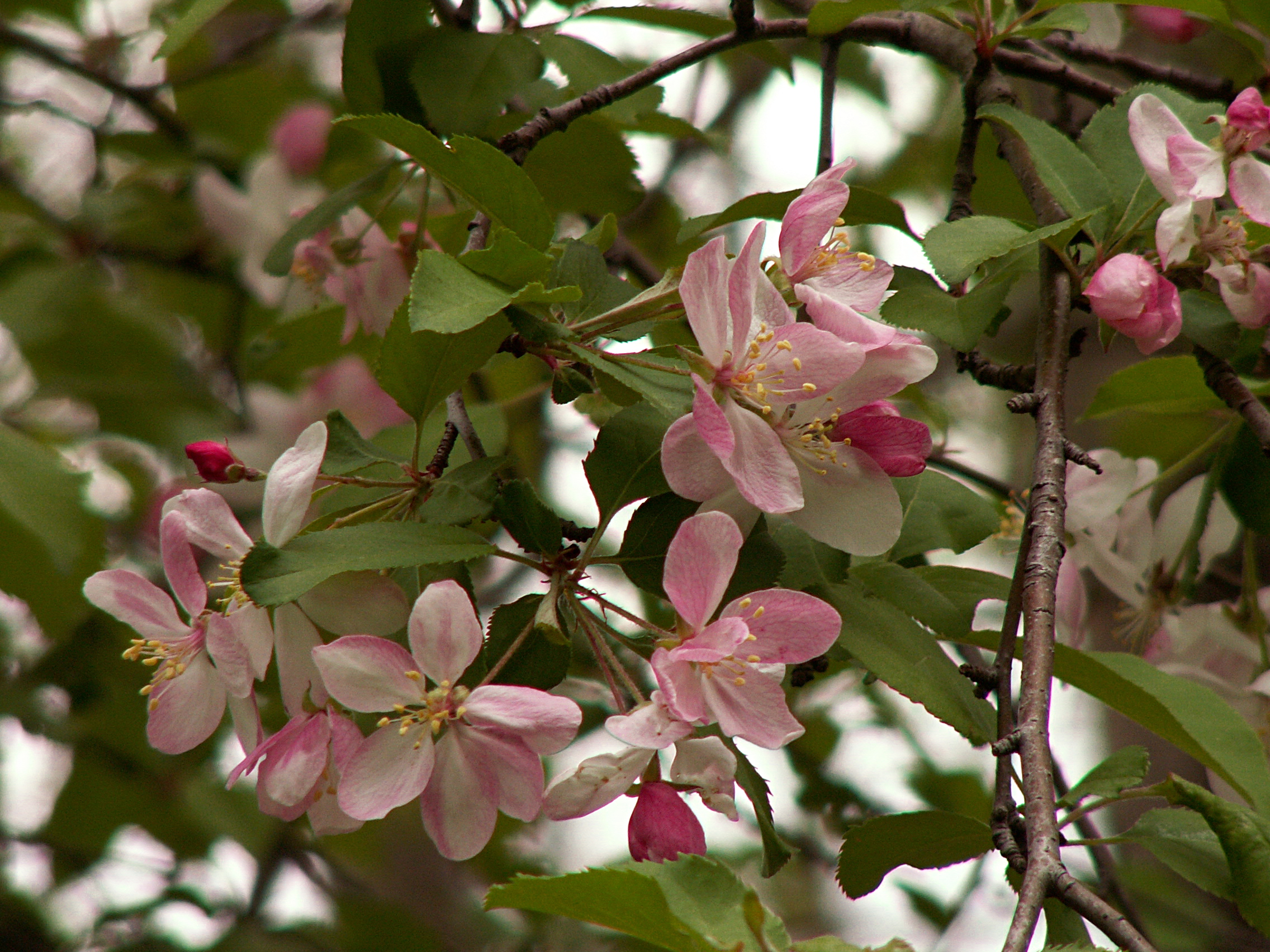 Crabapple (Malus coronaria) blooming in Frick Park, Pittsburgh